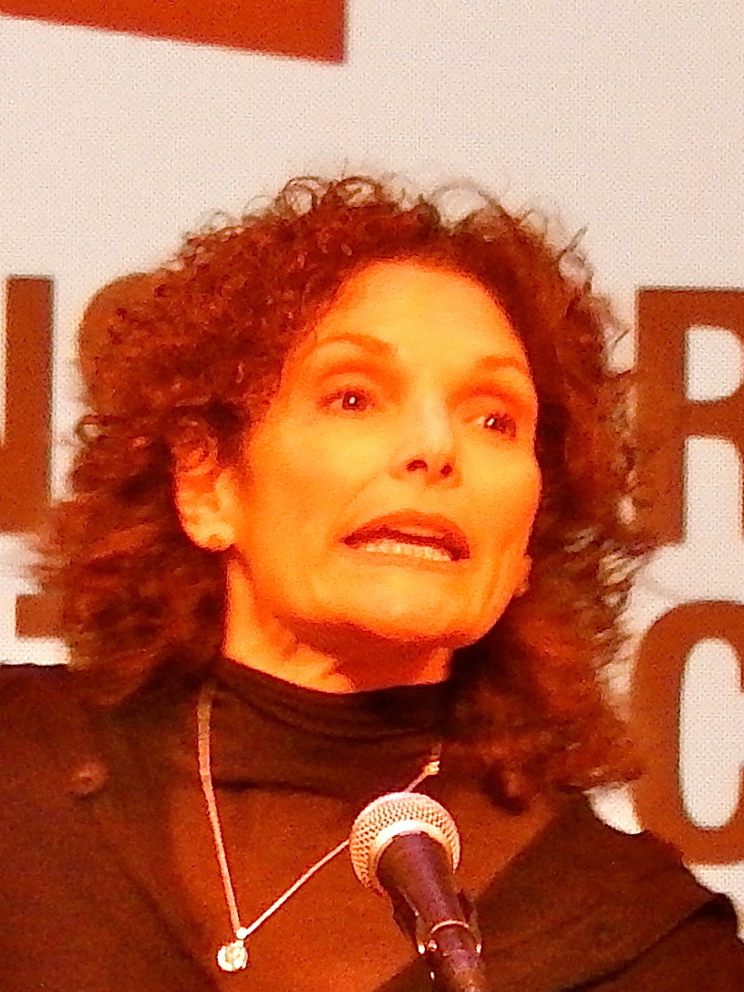 Mary Elizabeth Mastrantonio at the 'Gimme A Break!' Transport Group Gala 2013. The Asia Society. NYC. 12.9.13.